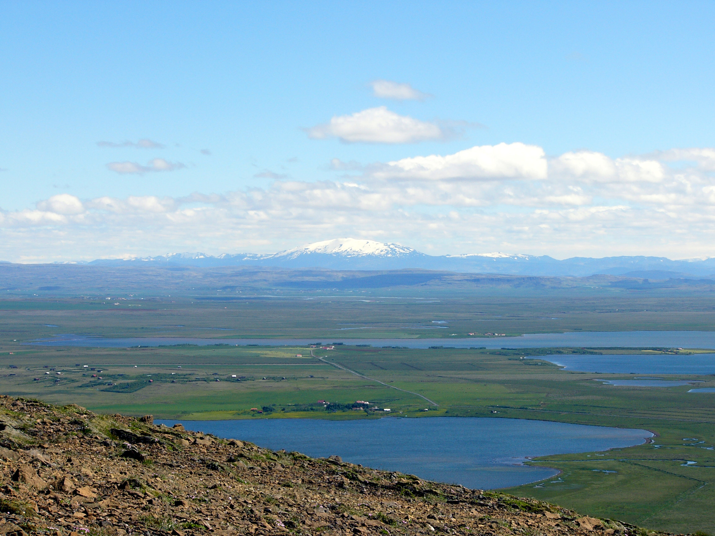 The lakes Laugarvaten and Apavatn from mount Laugarvatnsfjall. In the background Mount Hekla.